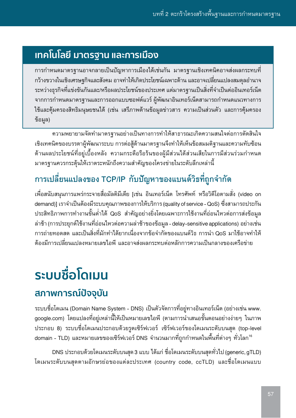 Page 57 of the book เปิดประตูสู่การอภิบาลอินเทอร์เน็ต (ISBN 978-616-92402-0-4), a Thai translation of An Introduction to Internet Governance by Jovan Kurbalija